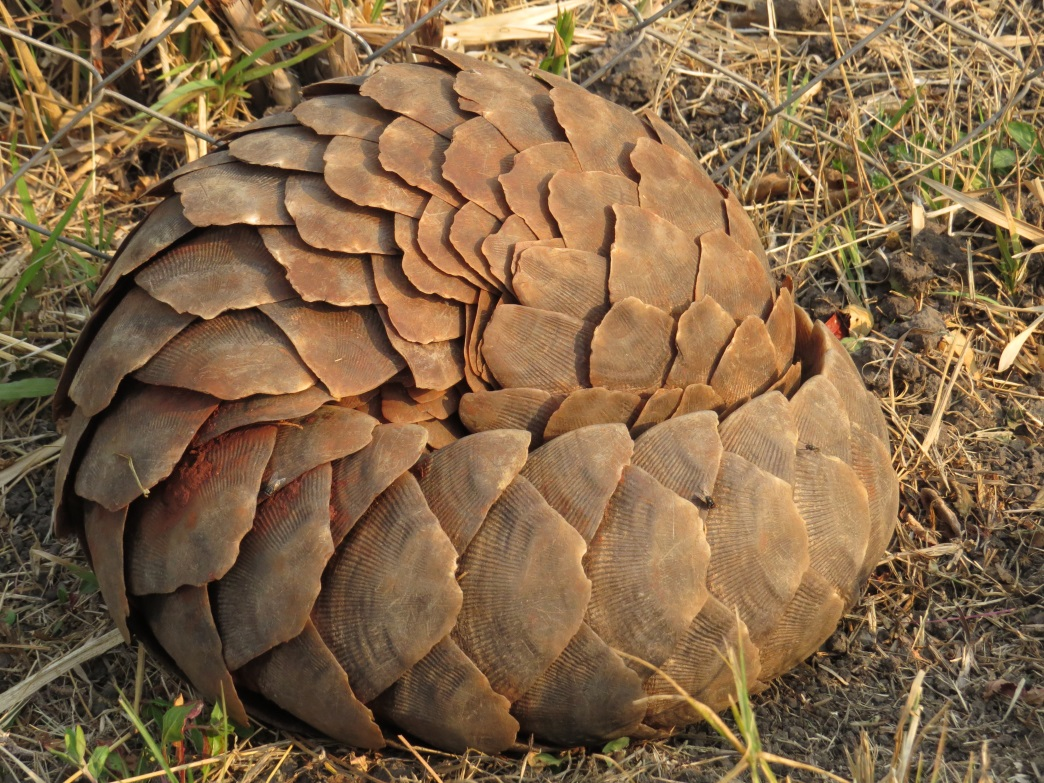 Photo credit to Tikki Hywood Trust The United States is co-sponsoring four separate proposals to increase CITES protections for pangolins from Appendix II to Appendix I